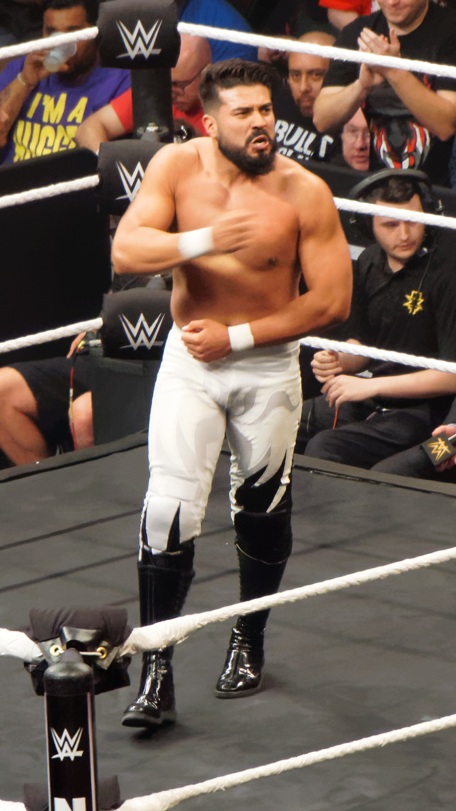 NXT TakeOver: Dallas was a major professional wrestling show in the NXT TakeOver series that took place on April 1, 2016, produced by WWE, showcasing its NXT developmental brand, and was streamed live on the WWE Network. It took place in the Kay Bailey Hutchison Convention Center in Dallas, Texas, during the weekend of WrestleMania 32. It was the first show in the NXT TakeOver series to be broadcast live on the WWE Network during WrestleMania weekend and first of 2016.[4] It was notable for Shinsuke Nakamura's WWE debut and first live match. The event received critical acclaim, with critics endorsing it as being better than WWE's WrestleMania 32 held two days later. The Zayn-Nakamura match was also lauded for being better than any match from WrestleMania 32. Manny Andrade defeated Christopher Girard